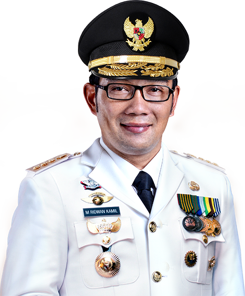 Ridwan Kamil as Governor of West Java